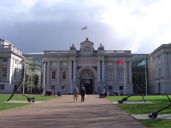 The National Maritime Museum, Greenwich Image by ChrisO